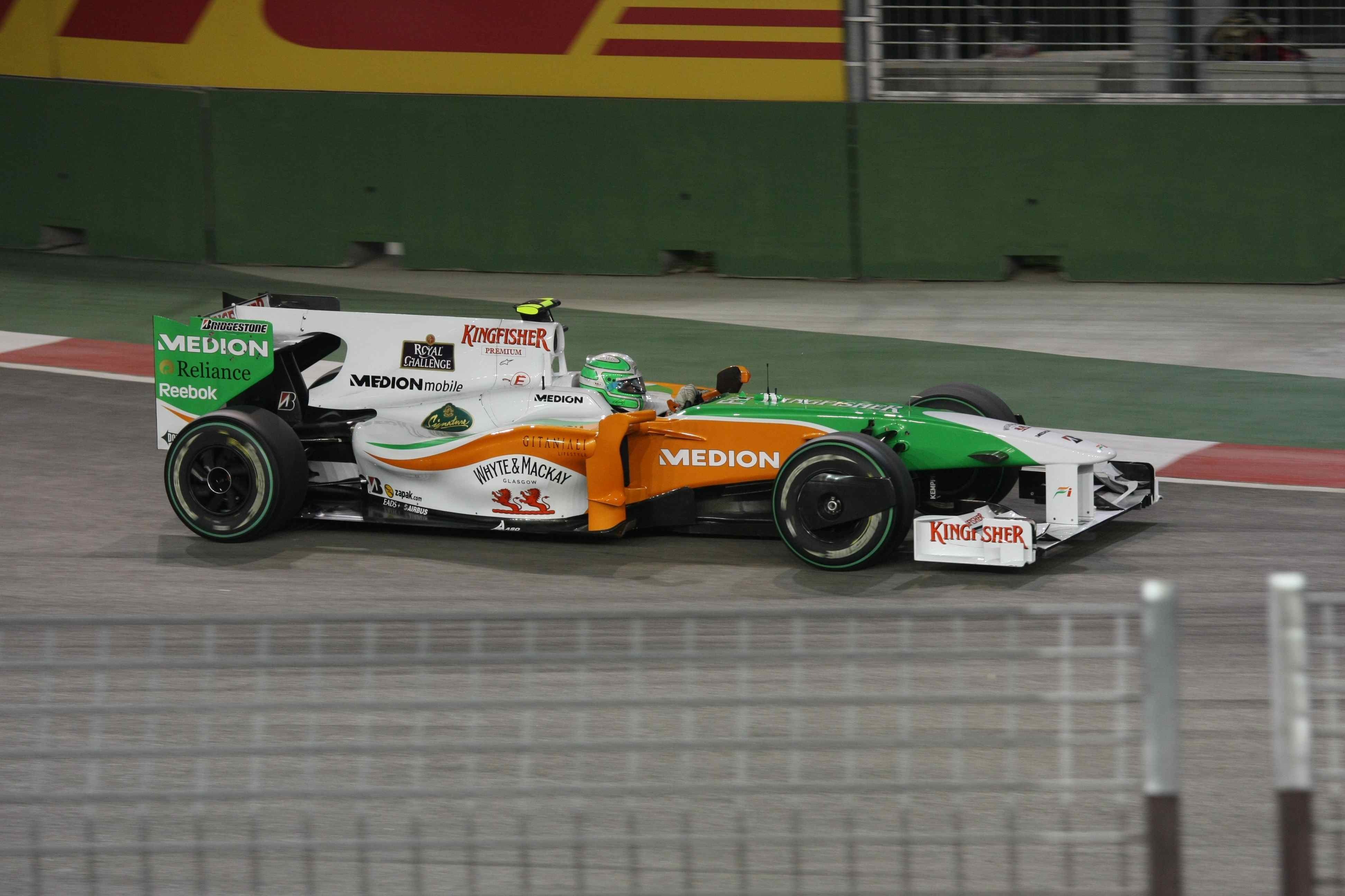 Vitantonio Liuzzi driving for Force India at the 2009 Singapore Grand Prix.